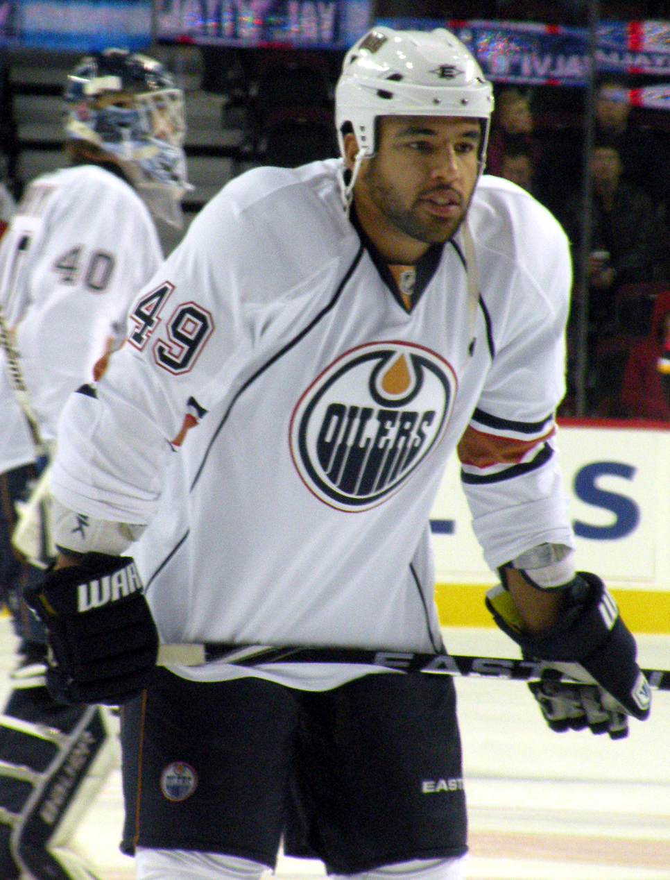 Edmonton Oilers defenceman Theo Peckham prior to a National Hockey League game against the Calgary Flames.